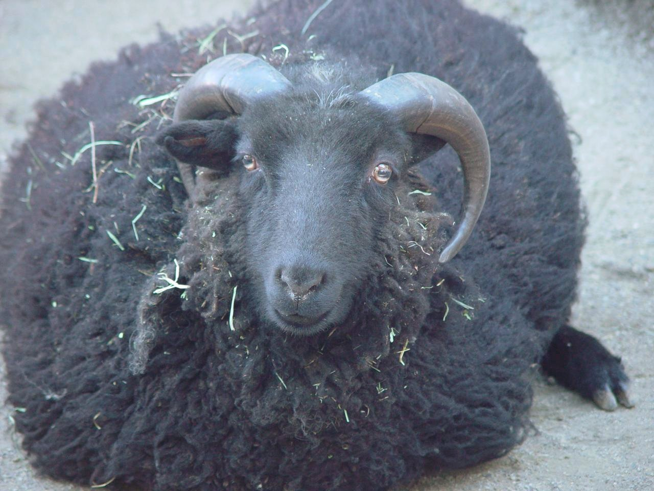 A black shetland sheep from the Oregon Zoo's Trillium Creek Farm in Portland, Oregon